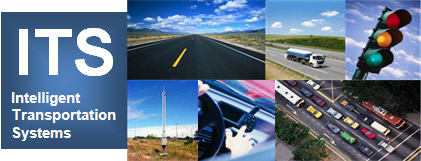 Verkehrstelematik